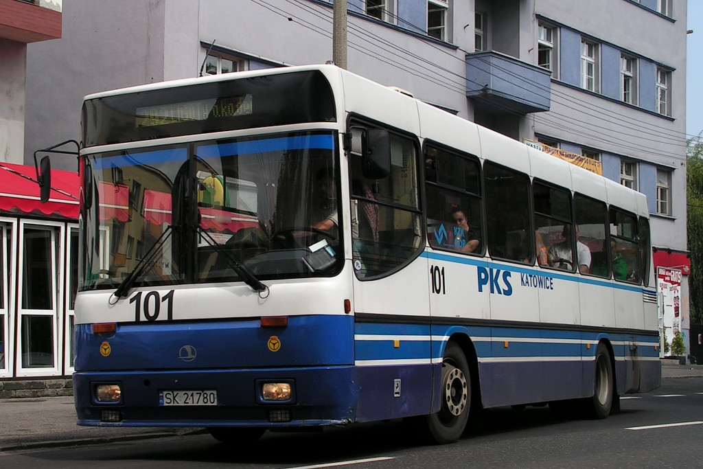 Autosan A1010M 'Medium' city bus (reg. SK 21780, #101), Katowice, Poland. Built 2000, PKS Katowice operator.